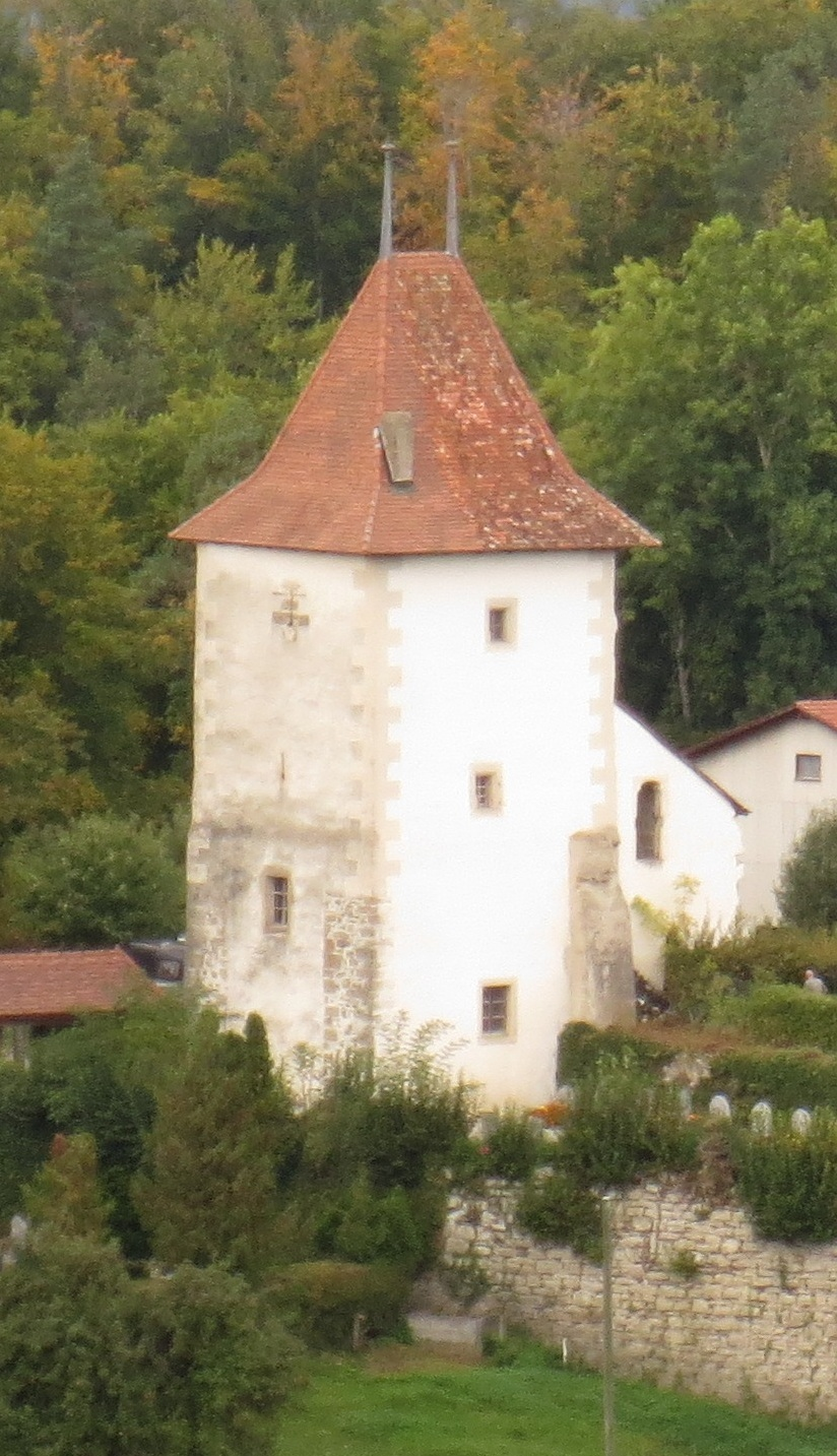 Villarzel tower, Canton of Vaud, Switzerland